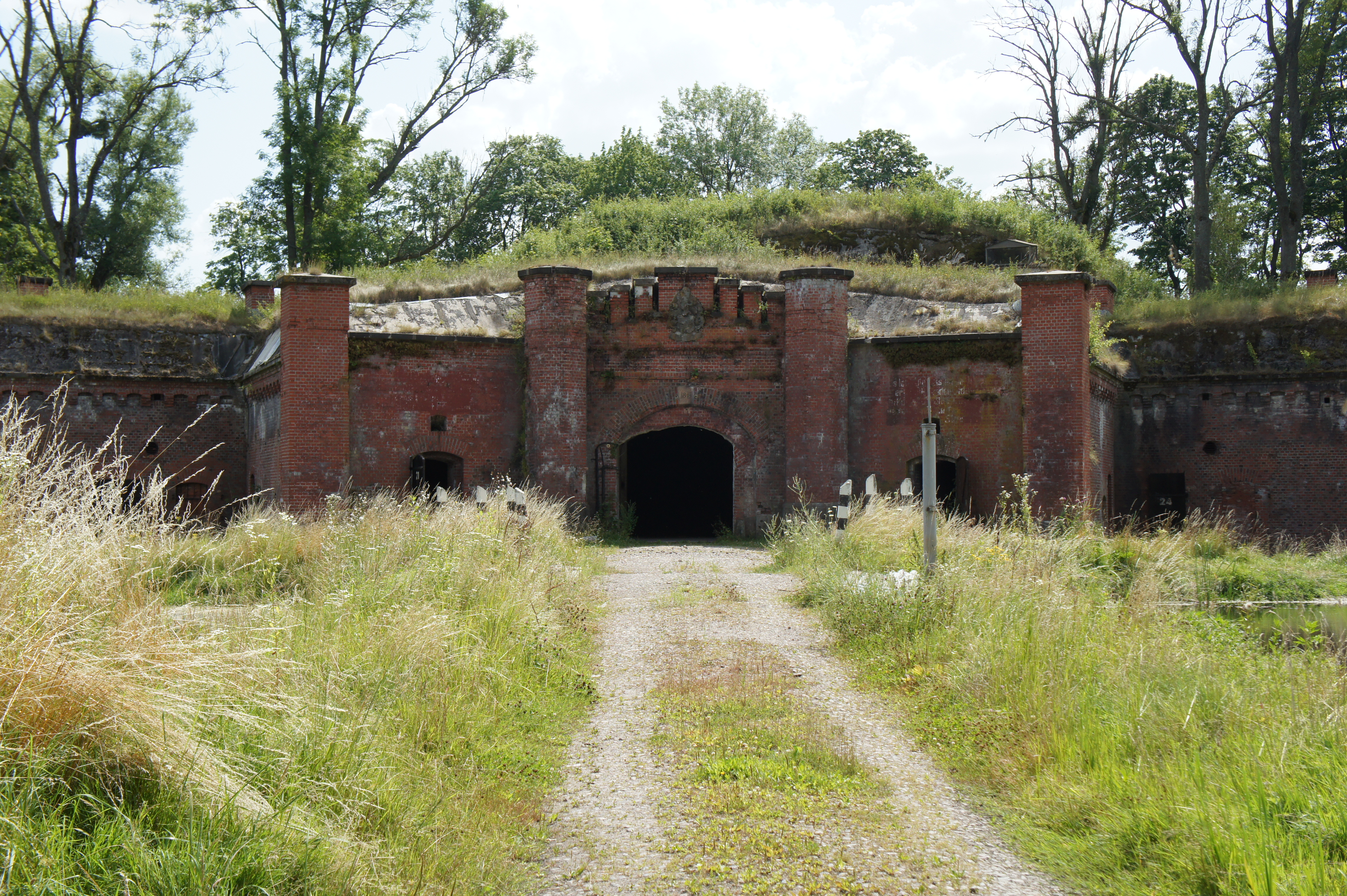 Fort 11 (Donhoff bei Seligenfeld) in Kaliningrad